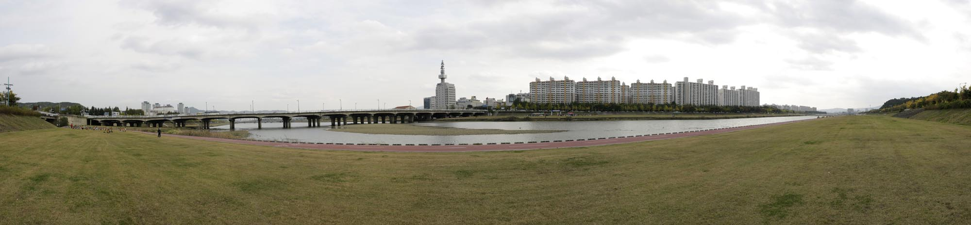 Panorama of a view next to the KAIST